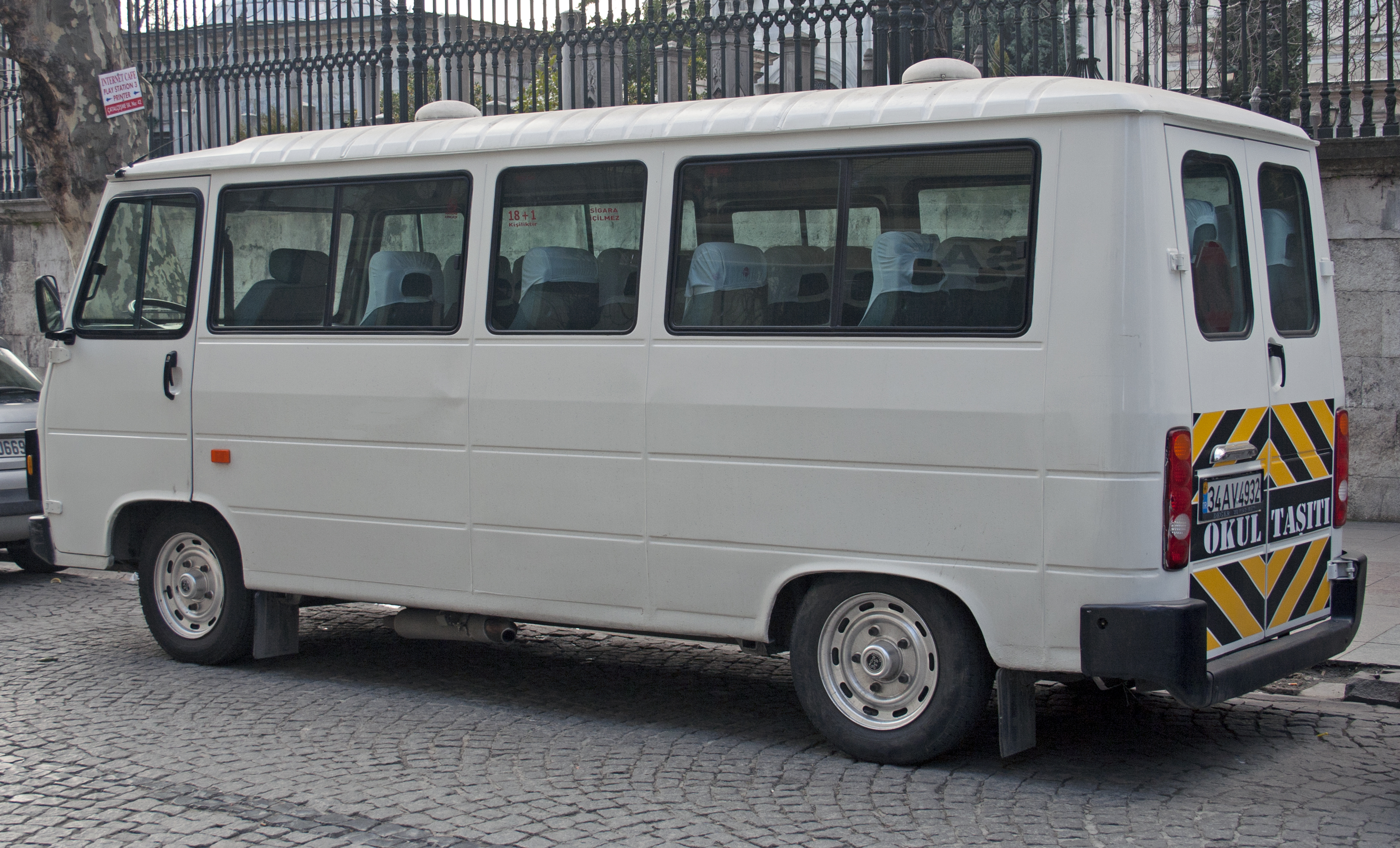 Karsan-built Peugeot J9, facelift version which was built from 1991 until 2006. Used as a school bus.